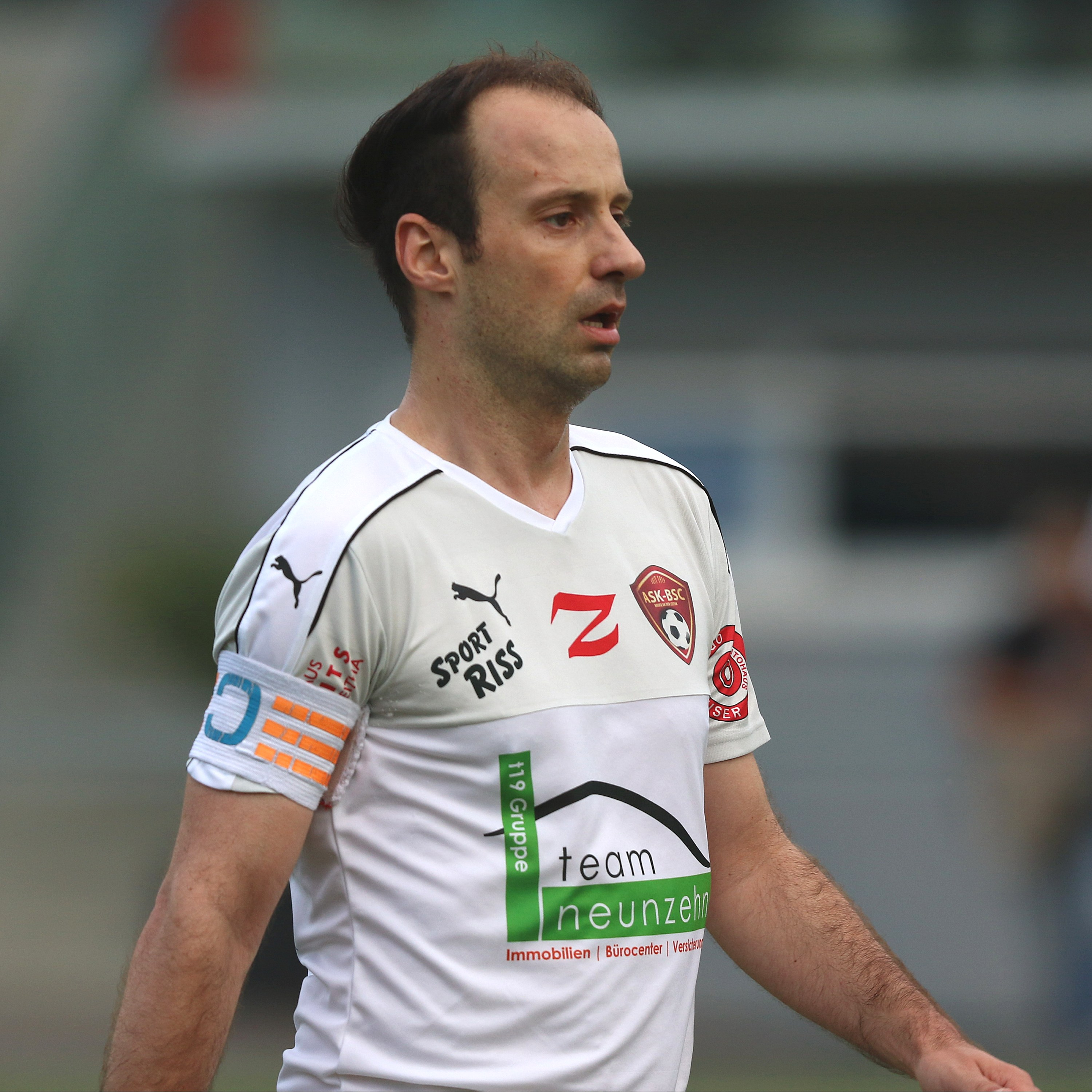 2017–18 Austrian Cup - SC Bad Sauerbrunn (blue-white shirts) vs. ASK-BSC Bruck an der Leitha (white shirts) 0-4. – The photo shows Vedran Jerkovic.